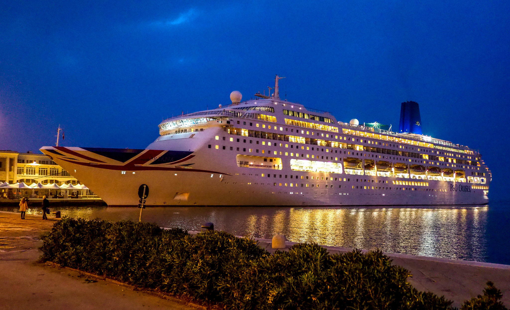 Oriana in dock November 20, 2017.